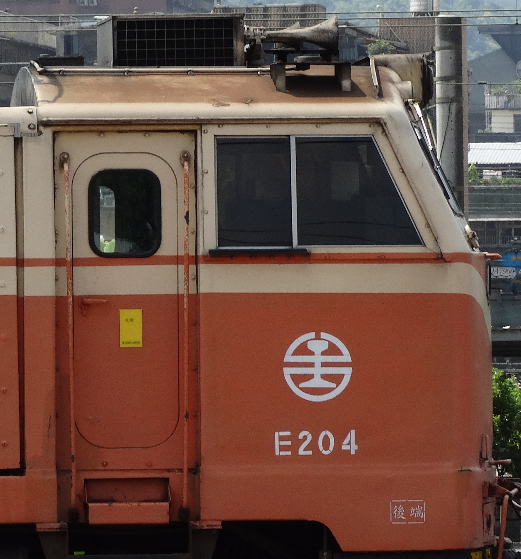 Modified version of driver's cab window of TRA E204 electrically-powered locomotive.